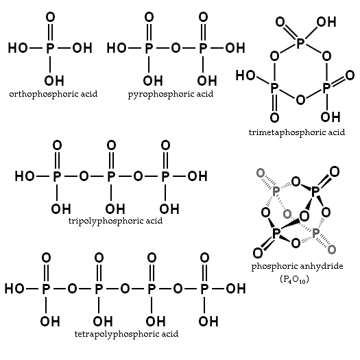 Chemical Structures of Various Phosphoric Acids The following chemical structures are shown in this image: orthophosphoric acid pyrophosphoric acid tripolyphosphoric acid tetrapolyphosphoric acid trimetaphosphoric acid phosphoric anhydride P4O10 H Padleckas created this image file on October 21-22, 2005 especially for use in the article "Phosphoric Acids and Phosphates" in Wikipedia. H Padleckas 06:00, 23 October 2005 (UTC) In November 2006, H Padleckas modified this image to revise the appearance of the P4O10 molecular strucure. H Padleckas 20:52, 21 November 2006 (UTC)